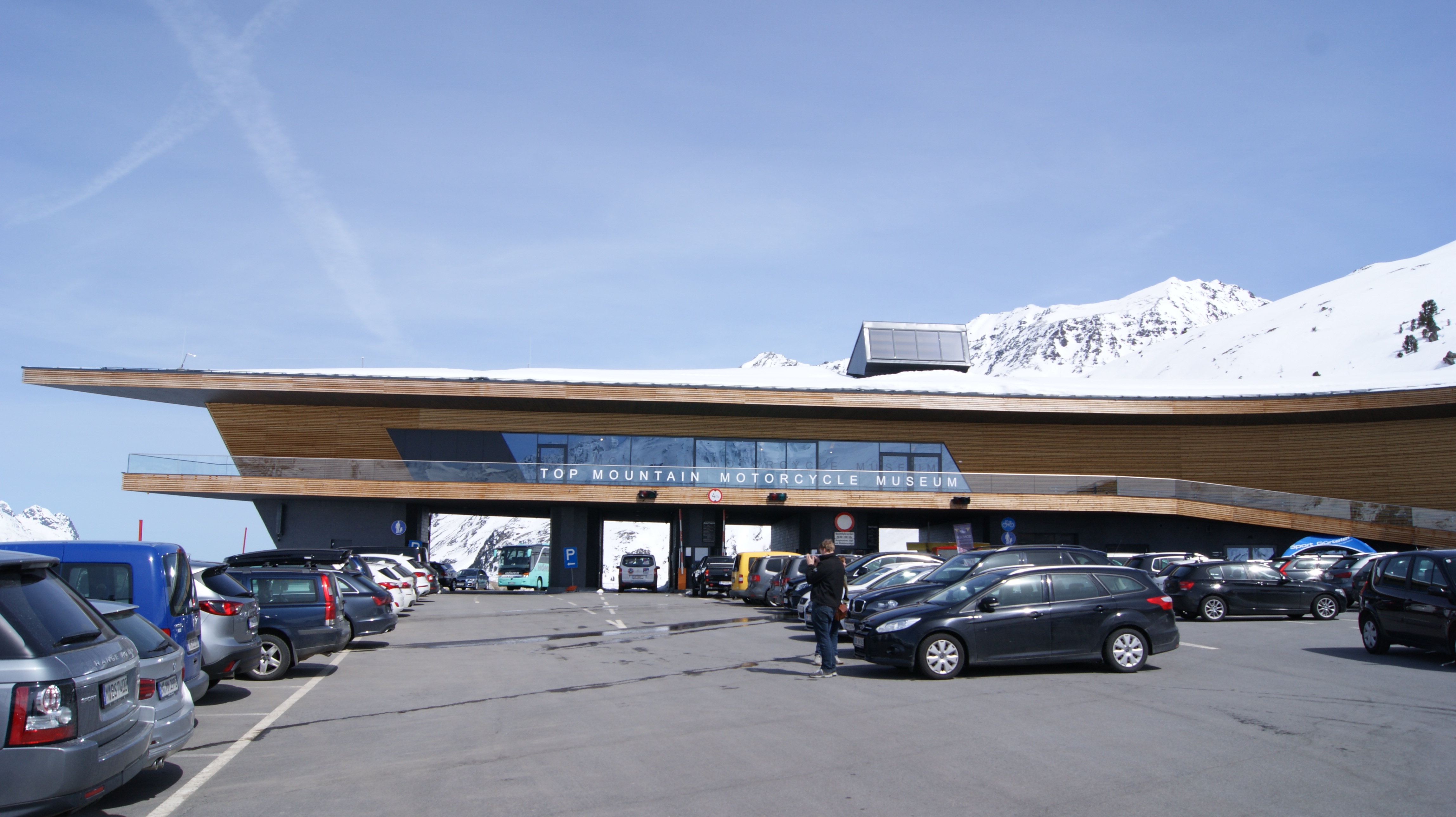 Top Mountain Motorcycle Museum in the Oetztal, Timmelsjoch.